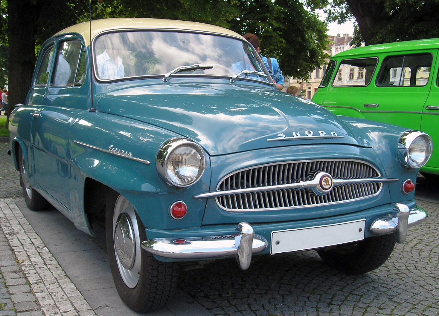 Škoda Octavia